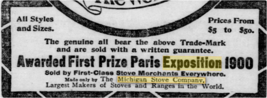 Newspaper advertisement with the Paris 1900 first prize award acknowledgement